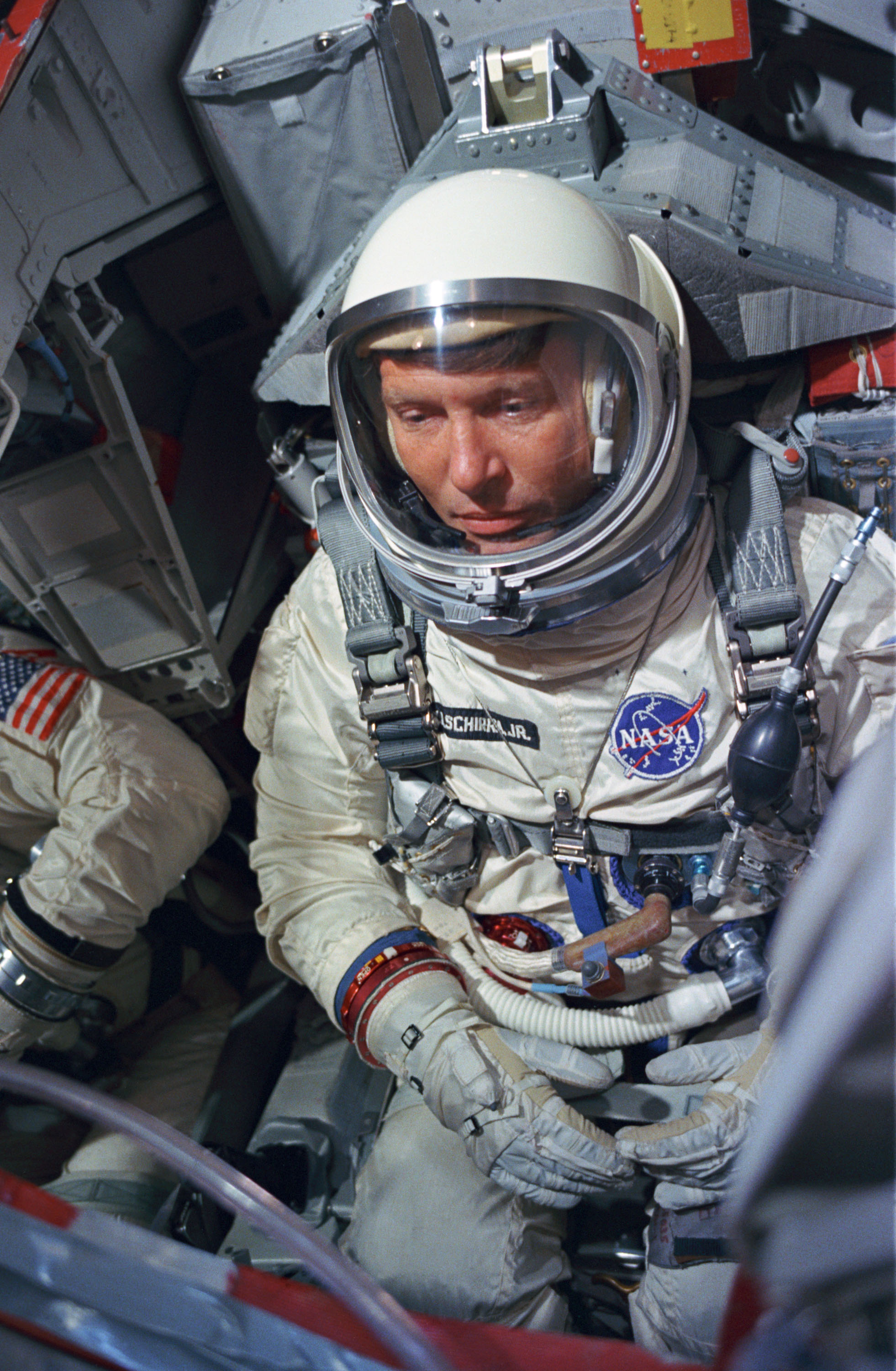 The Gemini-6 prime crew goes through simulated flight test activity in the white room atop Pad 19 at Cape Kennedy, Florida. Astronauts Walter M. Schirra Jr. (right), command pilot; and Thomas P. Stafford (at left, out of frame), pilot, are preparing for a two-day mission in space. NASA will attempt to rendezvous the Gemini-6 spacecraft with the Gemini-7 spacecraft.